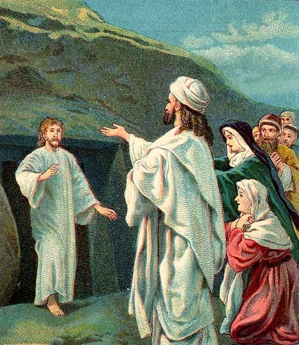 Raising of Lazarus